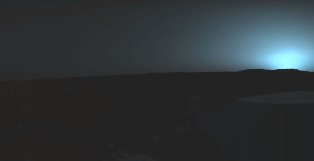 Viking 1 lander image of a martian sunset over Chryse Planitia. In this image the sun is 2 degrees below the local horizon. The banding in the sky is an artifact produced by the incremental brightness levels of the camera. This image was taken on the 30th martian day (sol) after touchdown, at 19:13 local time (10:40:31 on 20 August 1976 (UTC)). The camera is pointing towards the southwest.